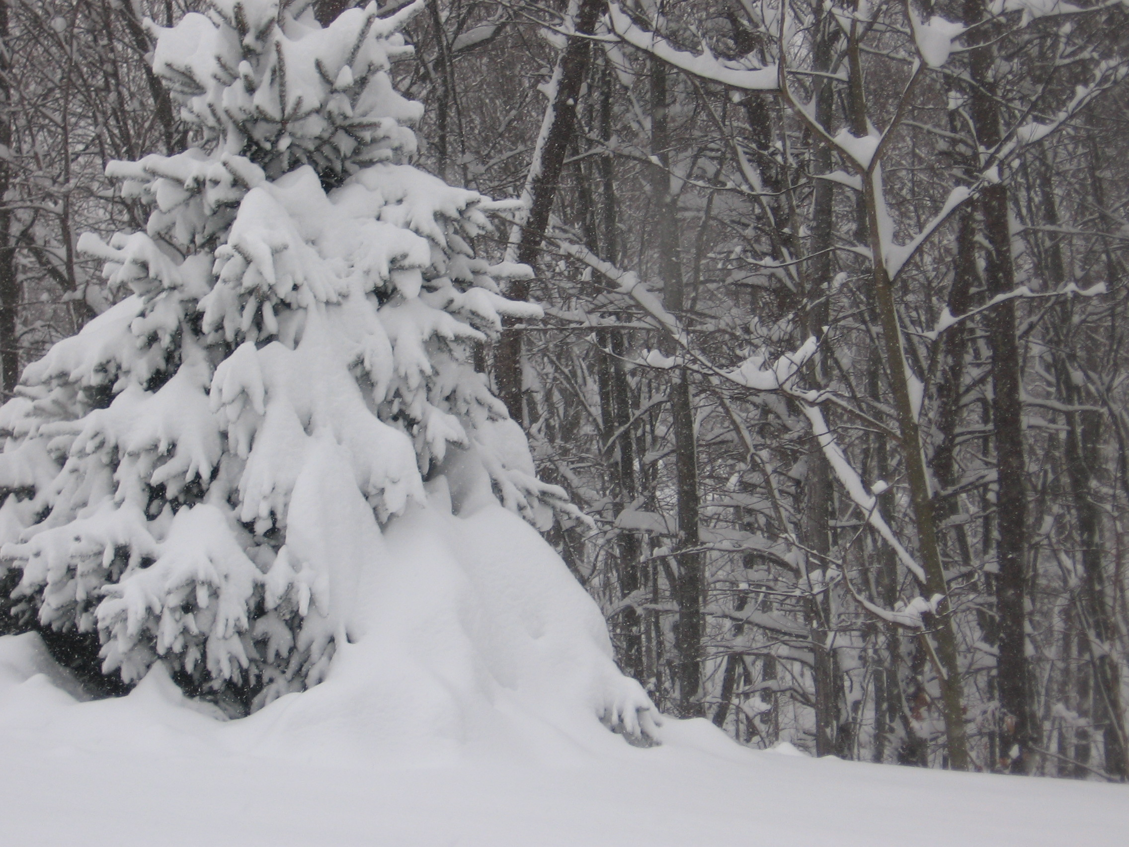 Dec 18th and 19th 2003 Significant Snowstorm in West Virginia